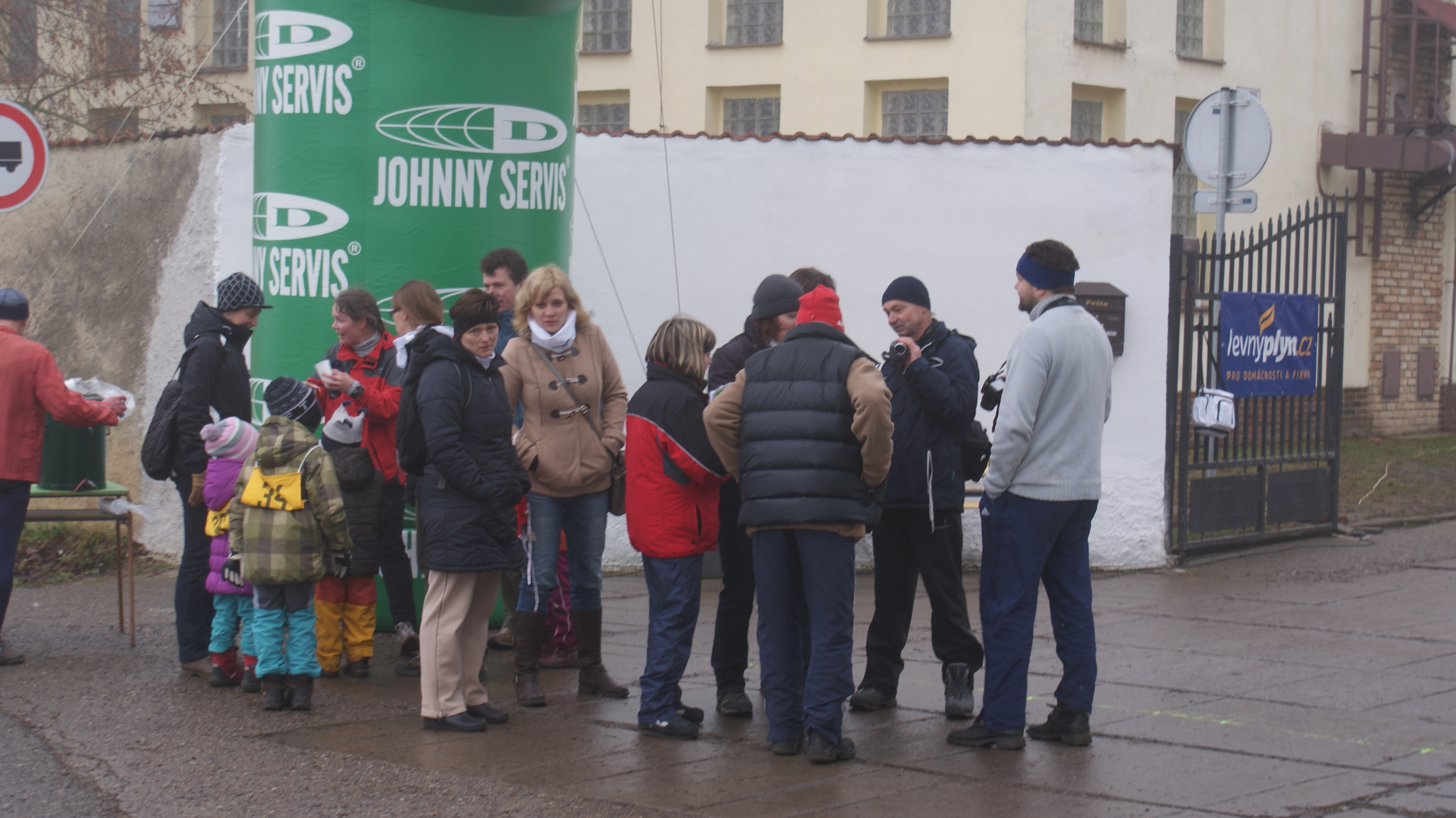 Liteň - running race